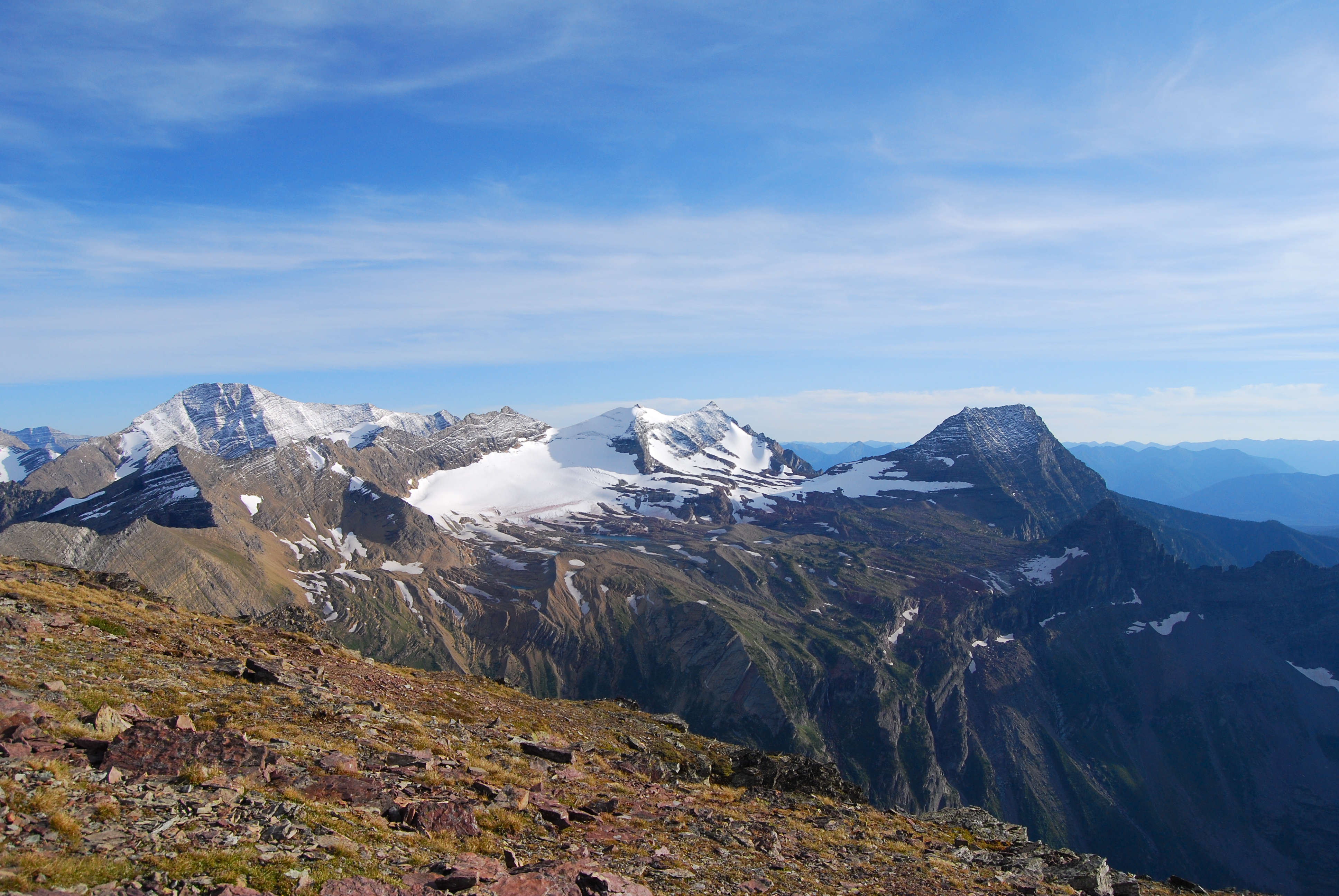 looking south at the Sperry Glacier/Floral Park area from the summit of Bearhat Mountain